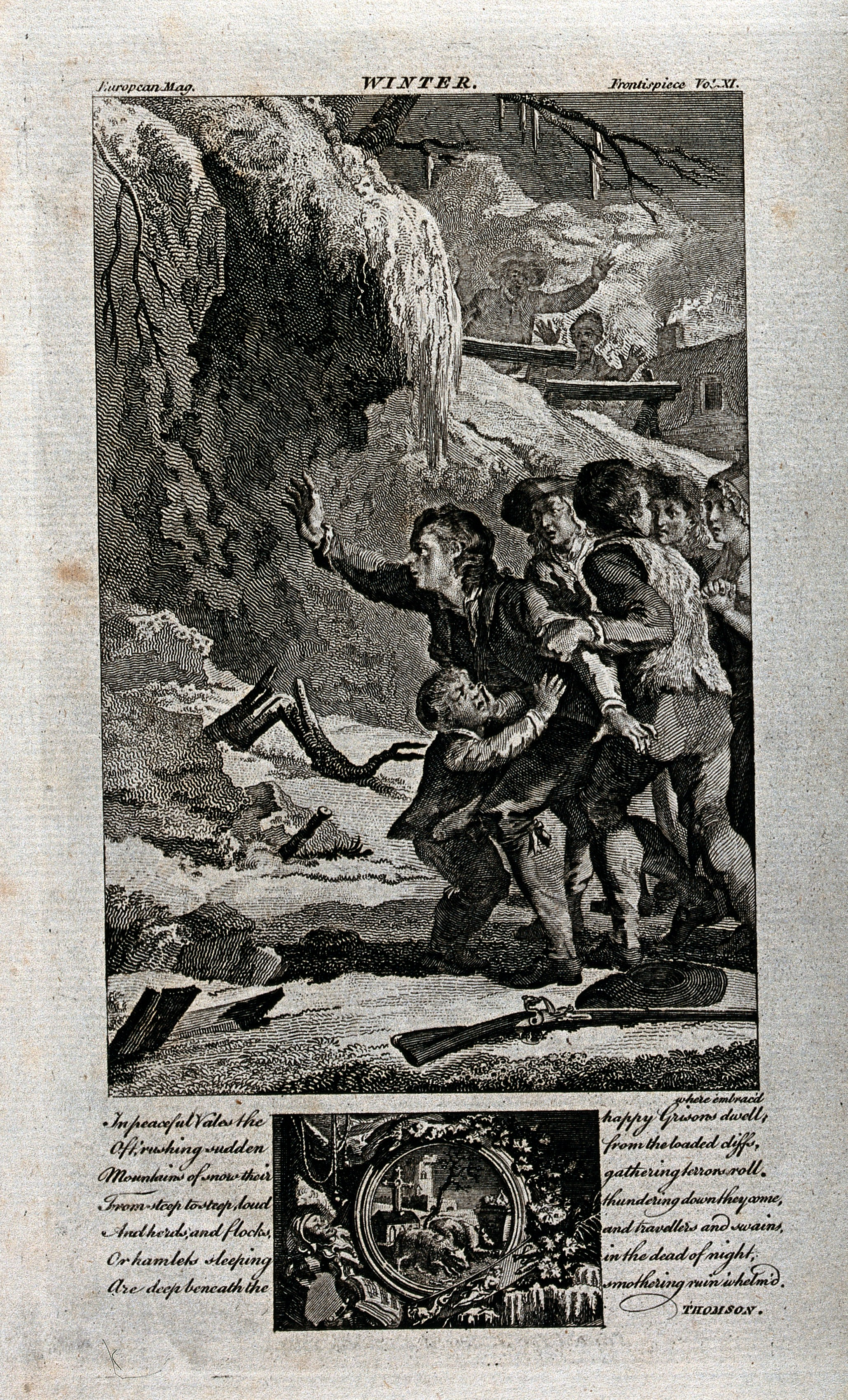 People living with the threat of avalanches; representing Winter. Etching. Iconographic Collections Keywords: James Thomson; PAINTING; WINTER; Paintings; ALLEGORY